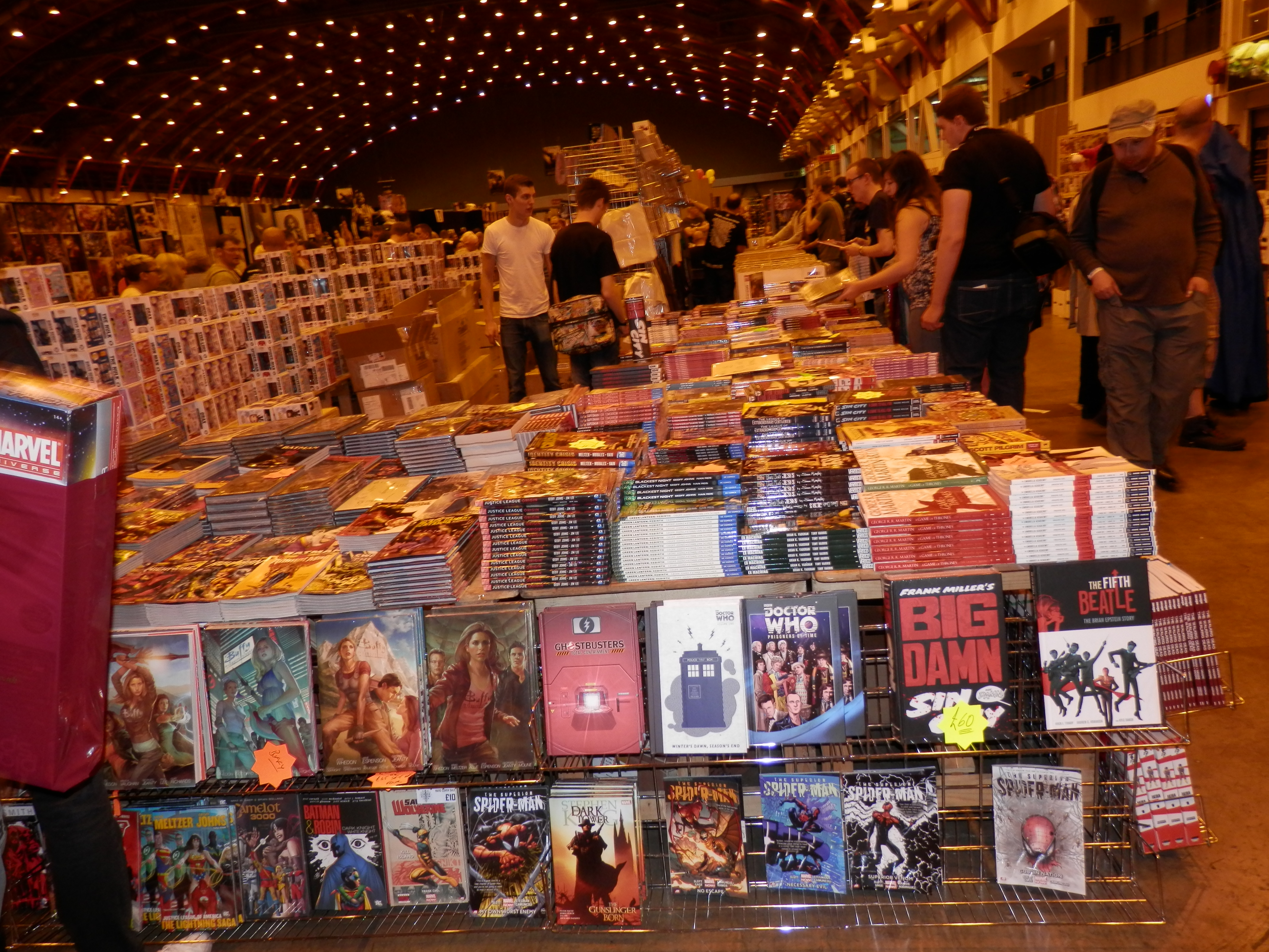 London Film and Comic Con 2014